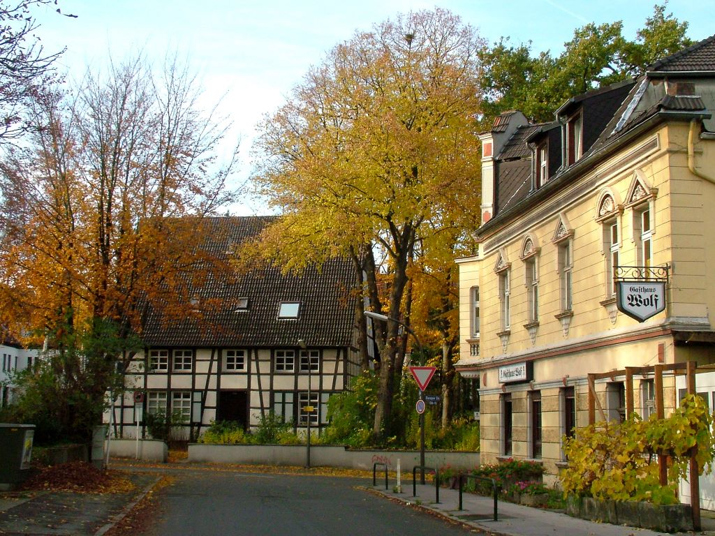 Dortmund-Gross Barop, Germany, intersection Ostenbergstraße/Baroper Strasse